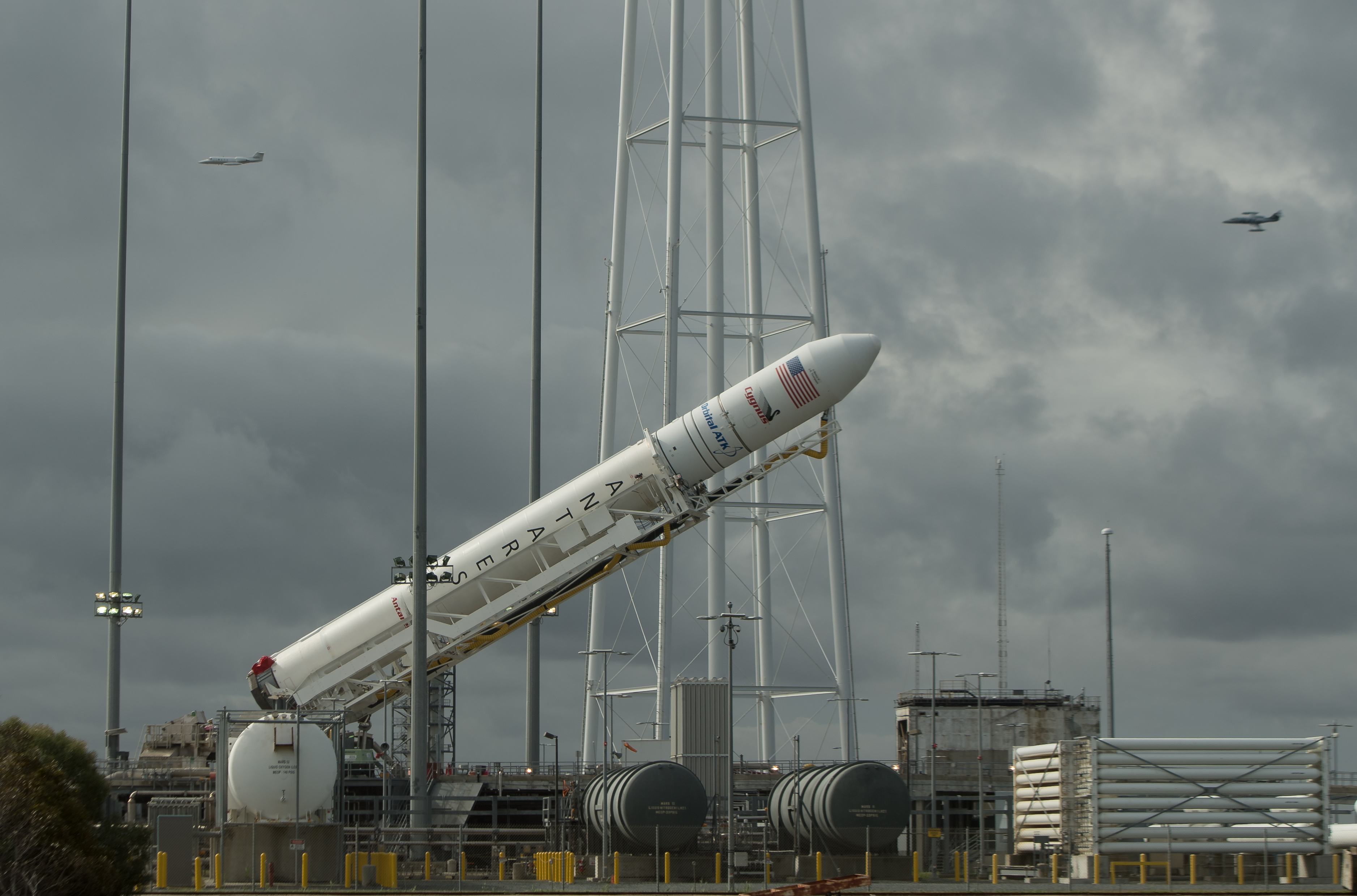 The Orbital ATK Antares rocket, with the Cygnus spacecraft onboard, is raised into the vertical position on launch Pad-0A, Thursday, Nov. 9, 2017 at NASA's Wallops Flight Facility in Virginia. Orbital ATK’s eighth contracted cargo resupply mission with NASA to the International Space Station will deliver over 7,400 pounds of science and research, crew supplies and vehicle hardware to the orbital laboratory and its crew.